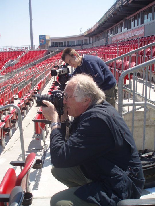 Boris Spremo and Djuradj Vujcic filming at BMO Field in 2009.This photo was used in the following articles:1.